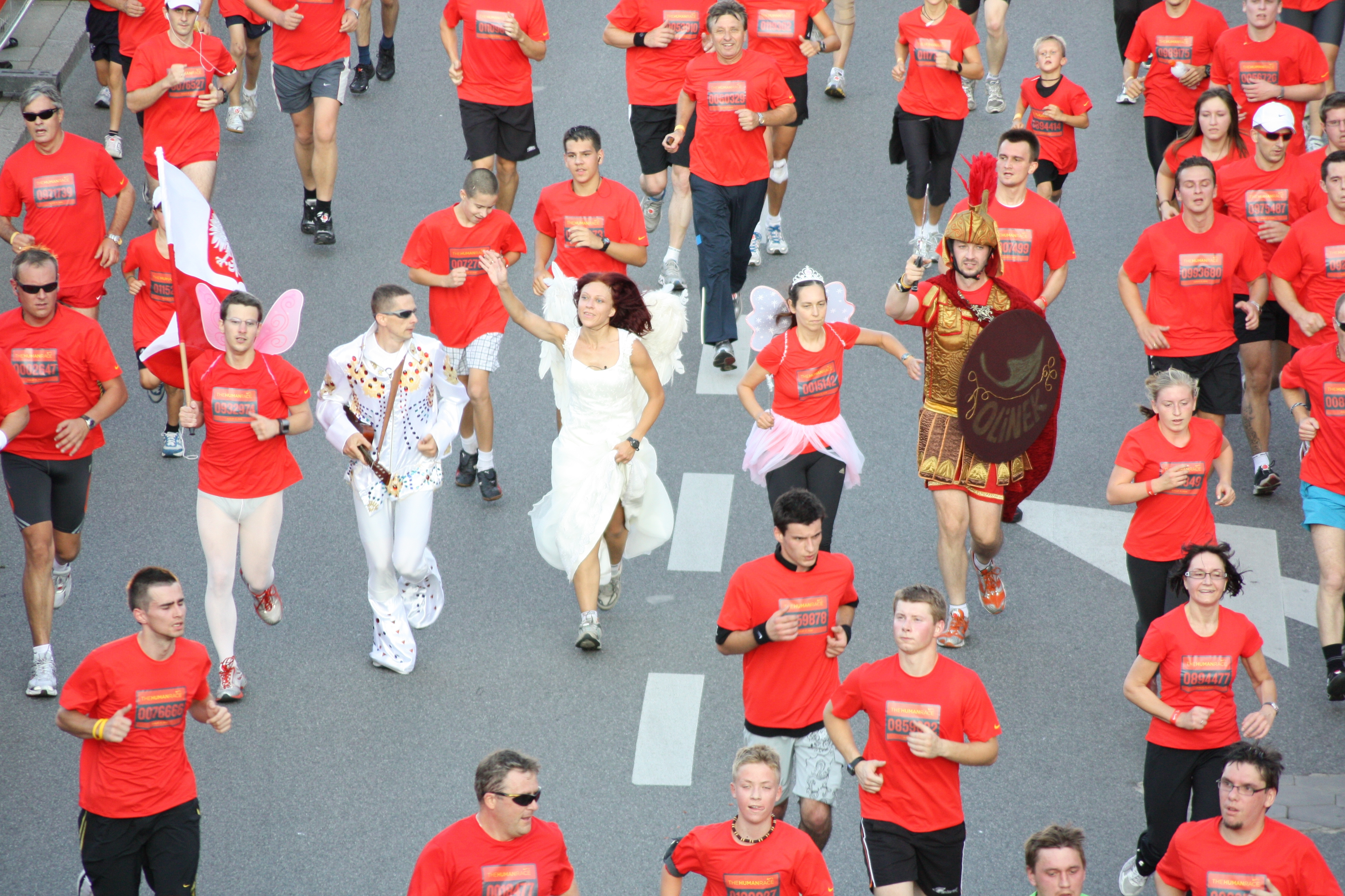 The Human Race 10k 2008, Warsaw, Poland